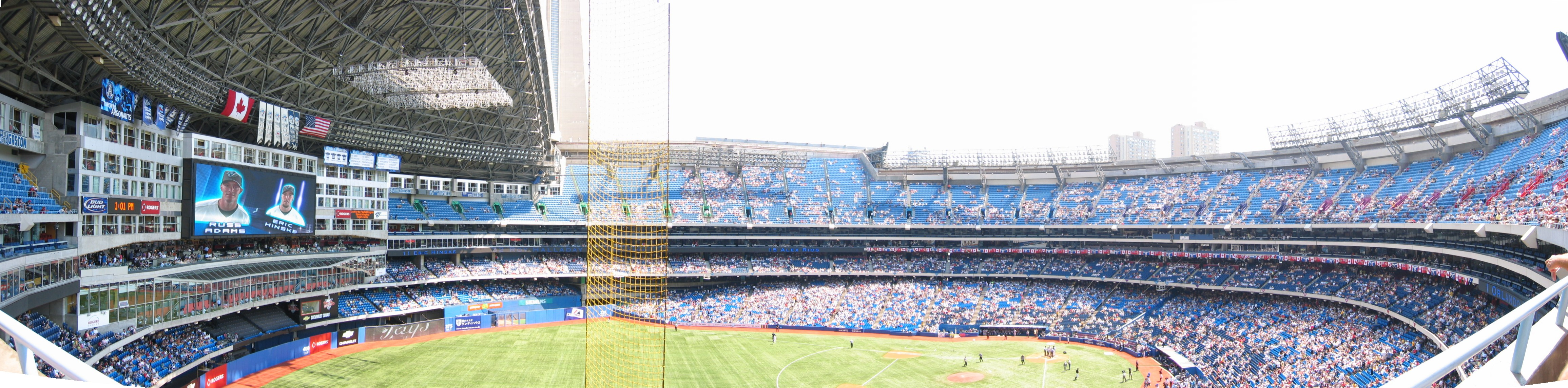 Toronto Skydome (Rogers Center) within